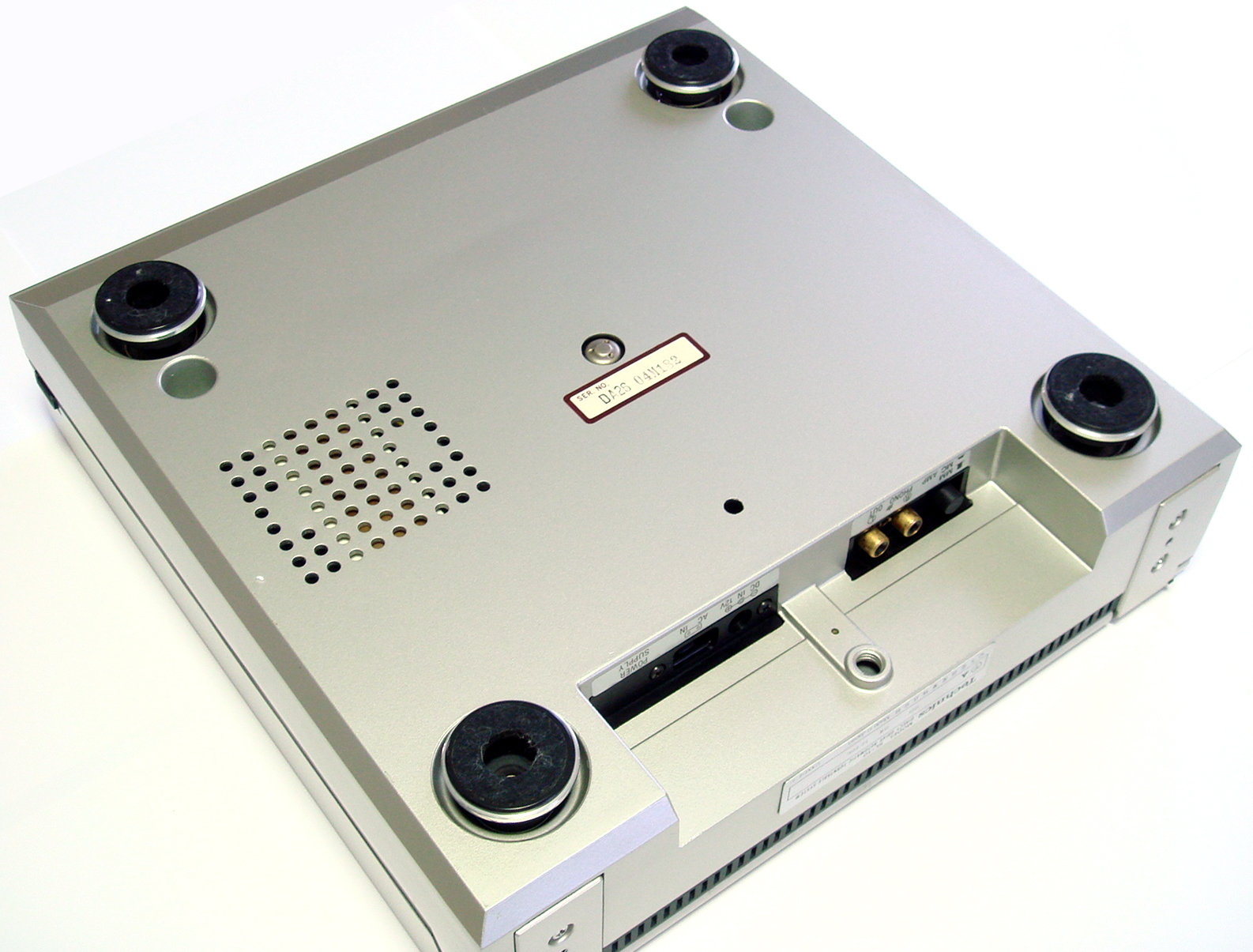 Picture of Technics SL-10, ser.DA26-04M182